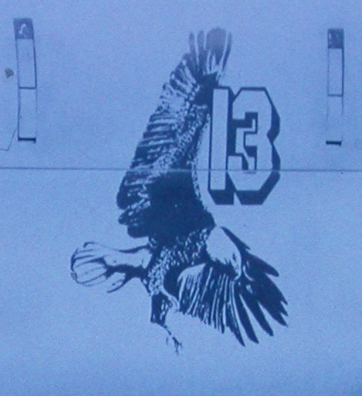 Squadron emblem of the Swiss Air Force